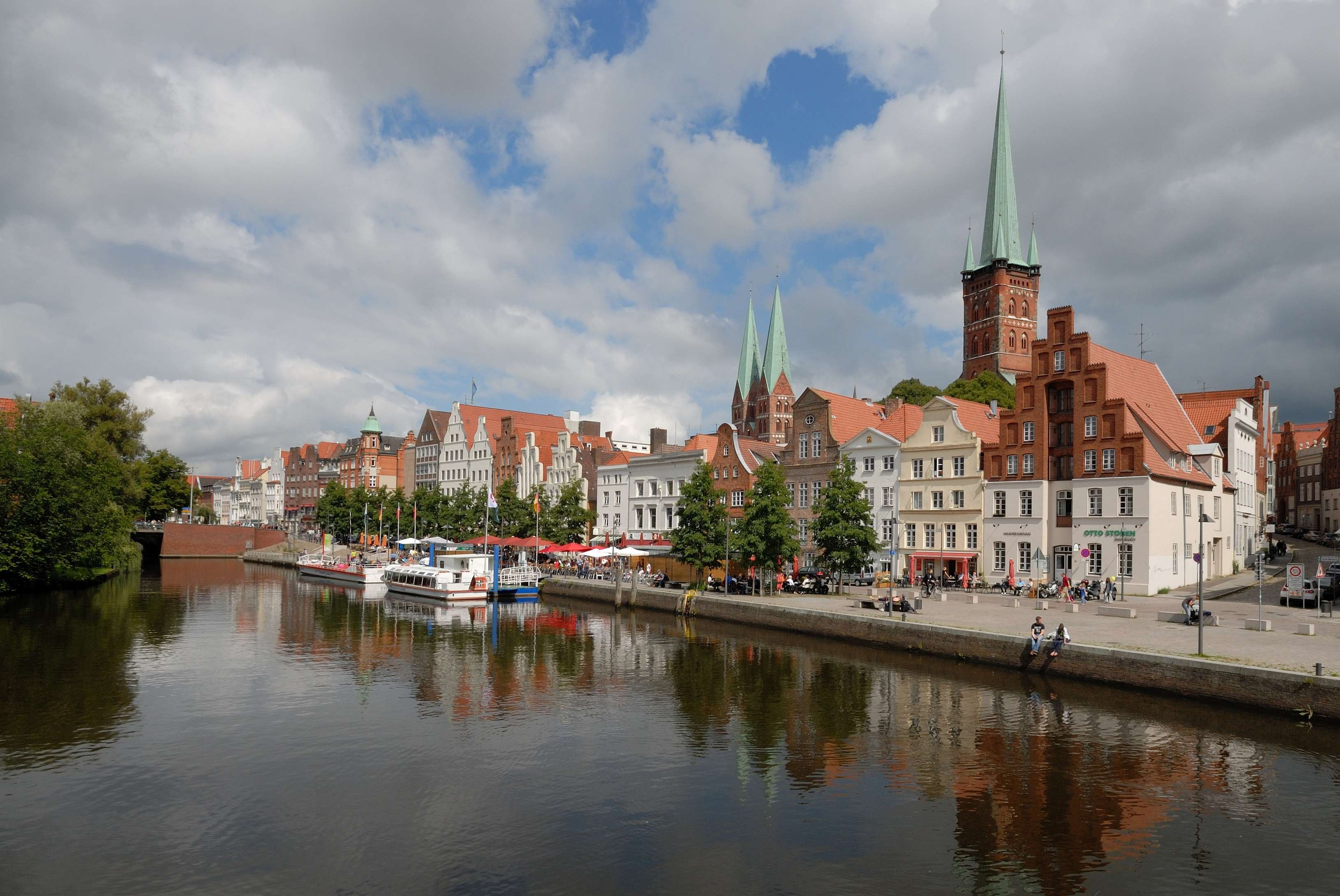 An der Obertrave, listed buildings nr. 6-8 and 11-15, Lübeck, Schleswig-Holstein, Germany